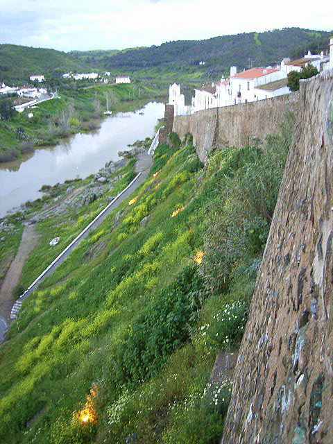 City wall in Mértola and the Guadiana river, Alentejo, Portugal